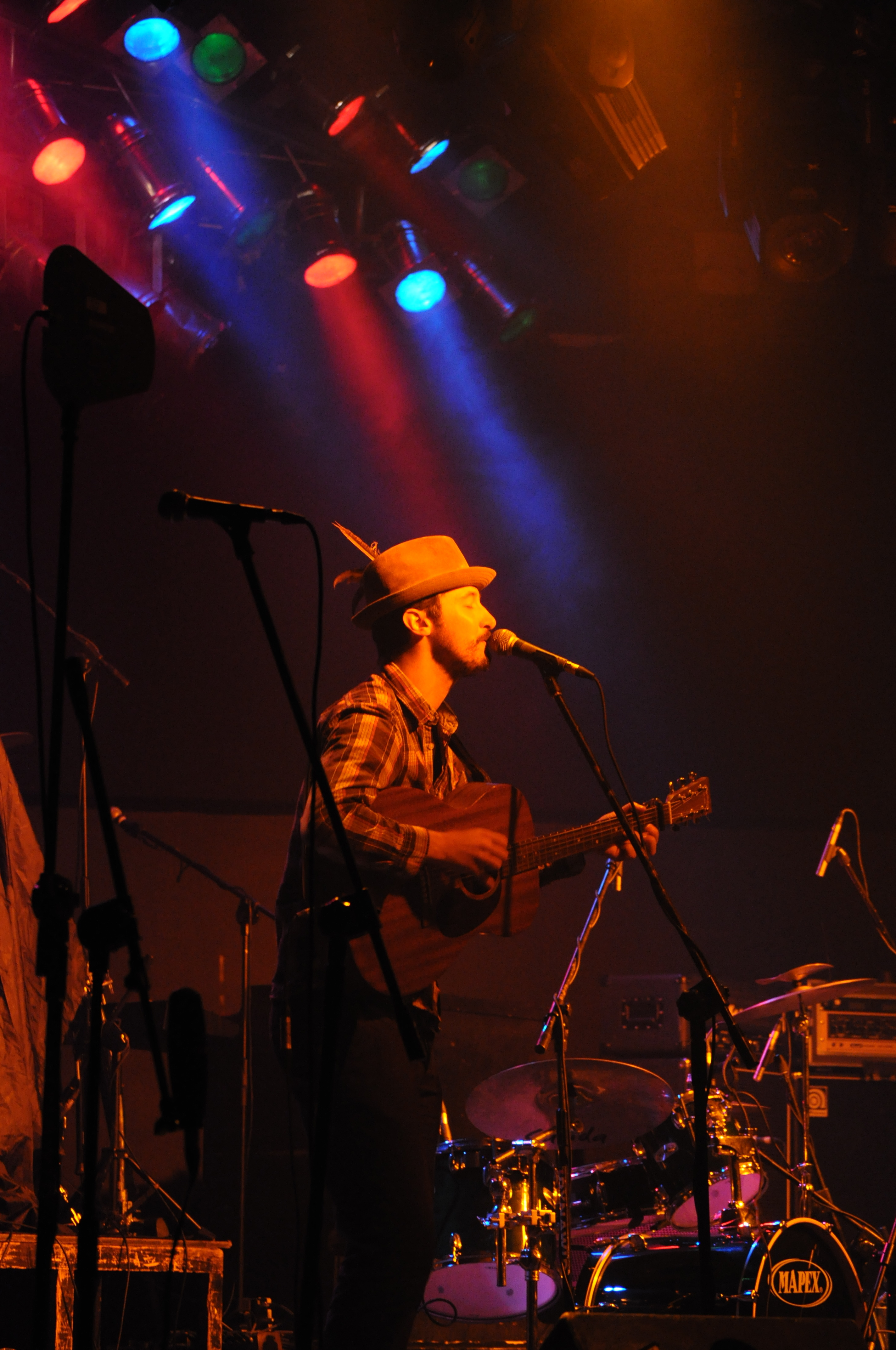 Karl Culley performing at Klub Studio, Kraków, Poland